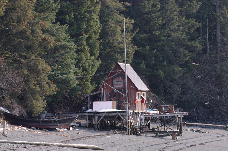 Seldovia Bay, Alaska.